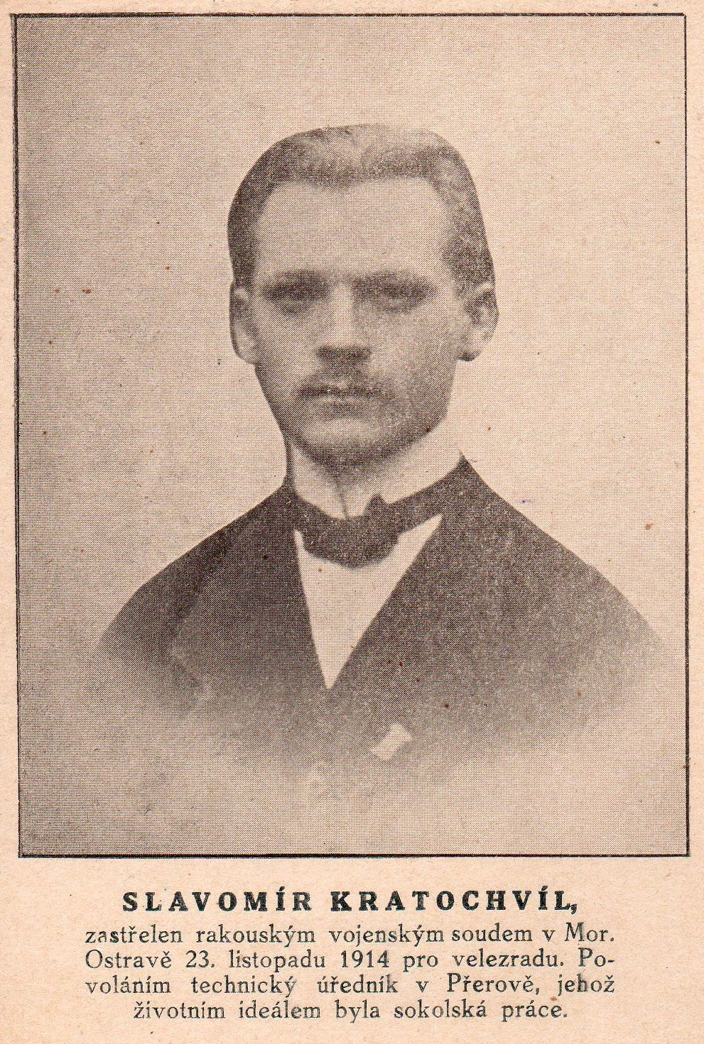 The first victim of home resistance movement in World War I. Shot by Austrian military court for treason. For disseminating anti-government leaflets.